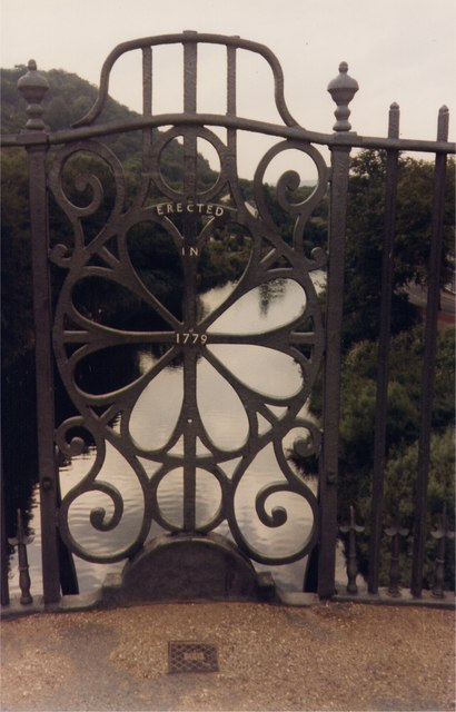 Iron Bridge Detail